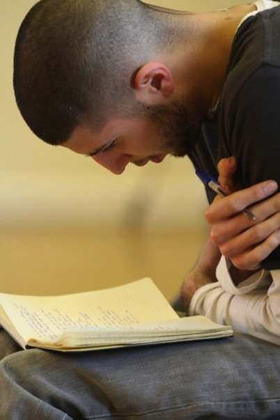 Taken at the Royal Shakespeare Company